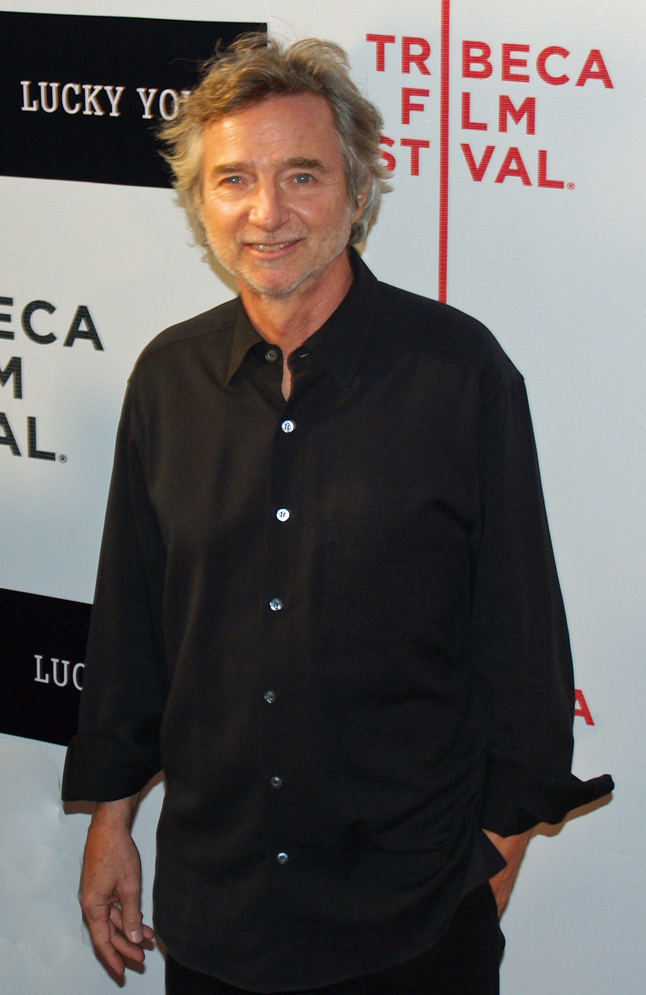 Curtis Hanson by David Shankbone